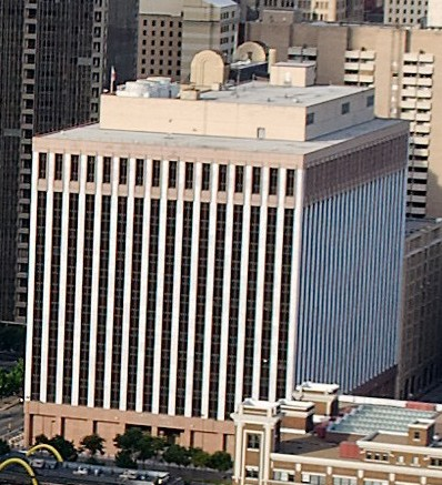 Earl Cabell Federal Building, shot from the Reunion Tower July 2007.